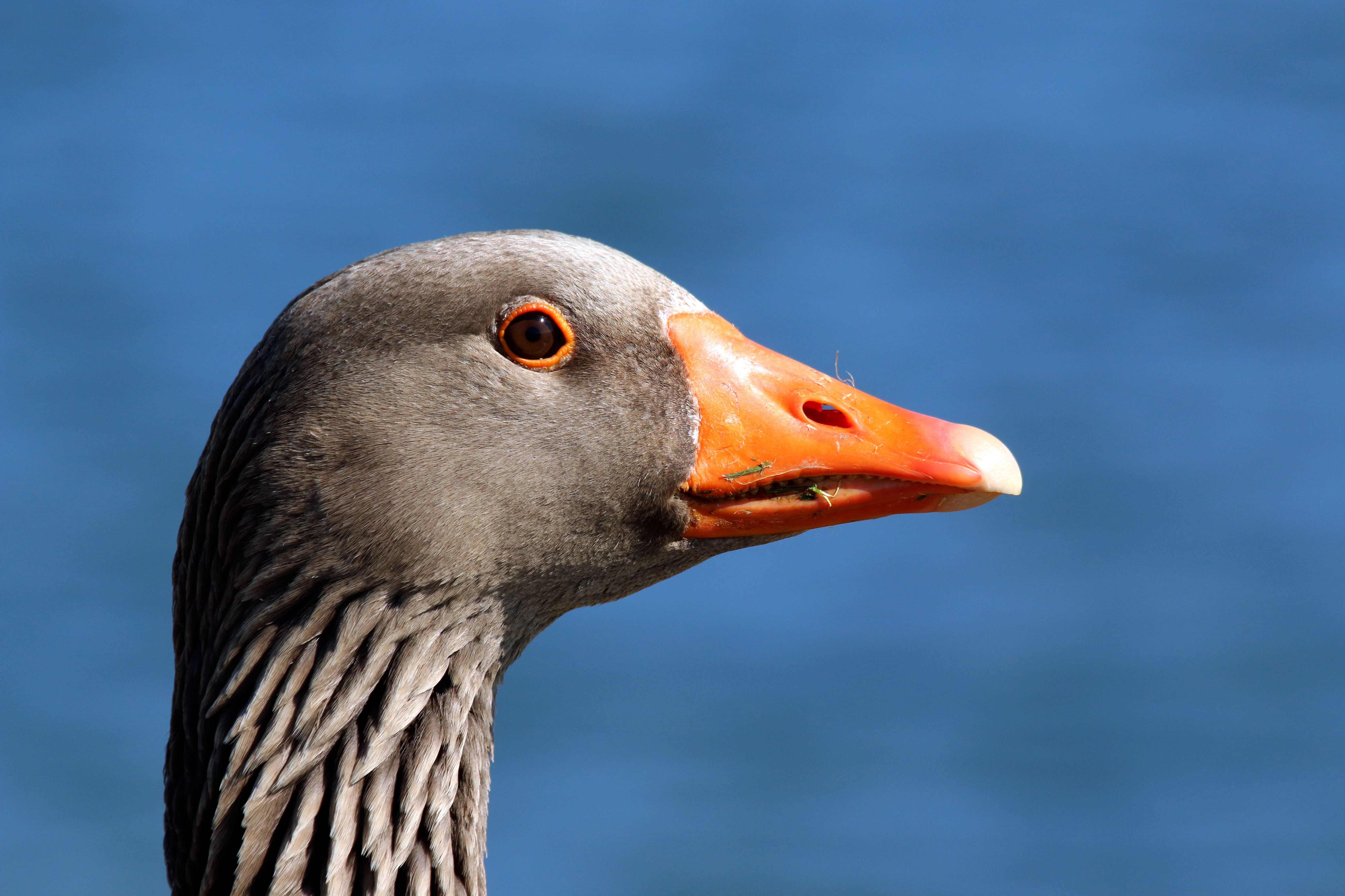 Greylag goose (Anser anser), Farmoor Reservoir, Oxfordshire